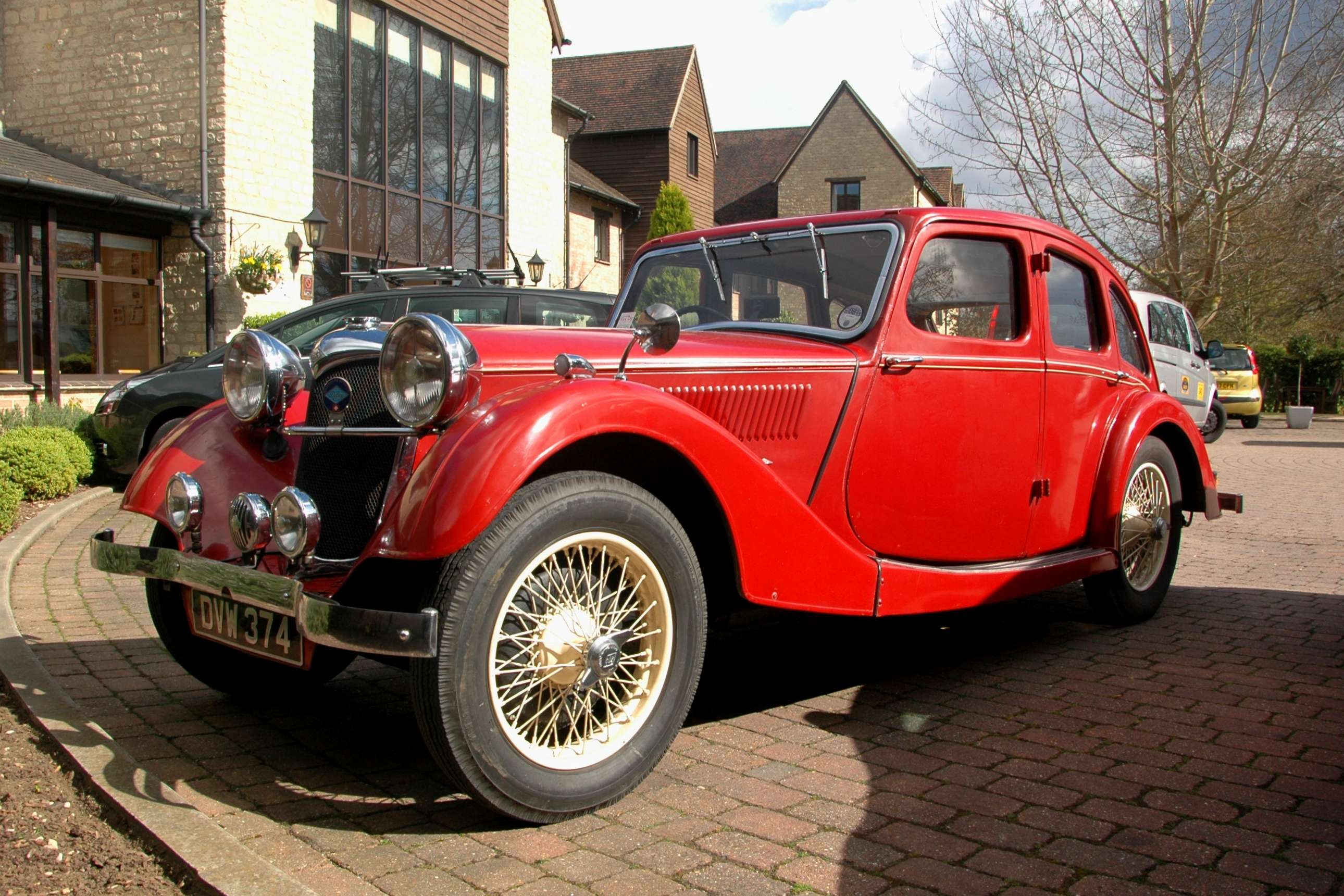 1936-registered 6-light Riley Kestrel, photographed in Oxford in 2013identified as a 1937 (model) 12/4